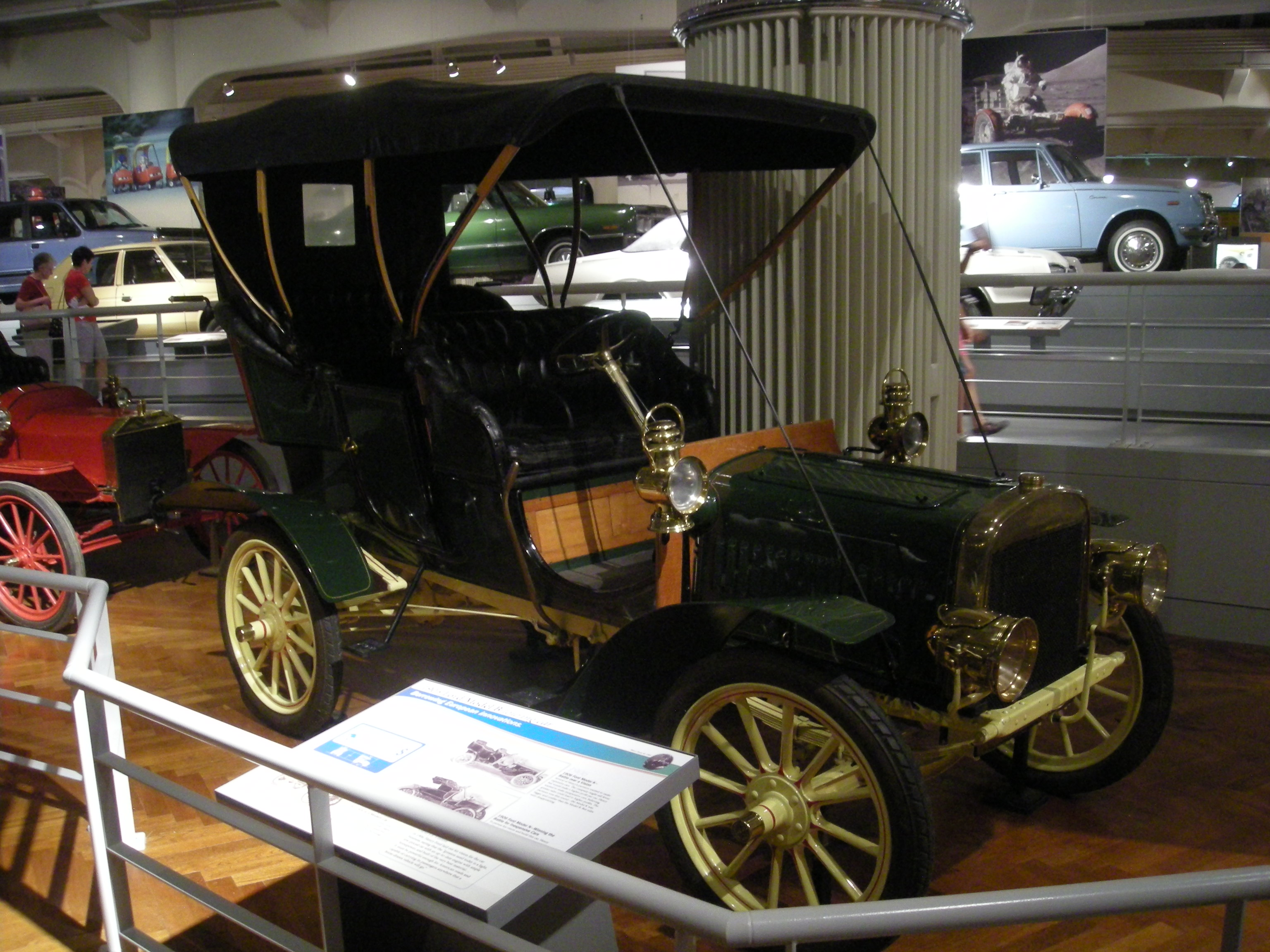 A 1905 Ford Model B on display at the Henry Ford Museum in Dearborn, Michigan (United States).